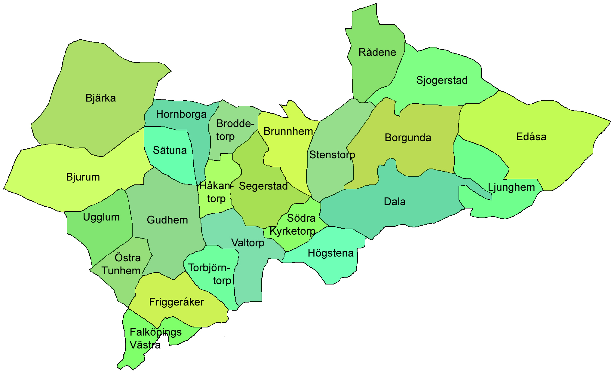 Map over the parishes in the Gudhem hundred, Västergötland, Sweden.